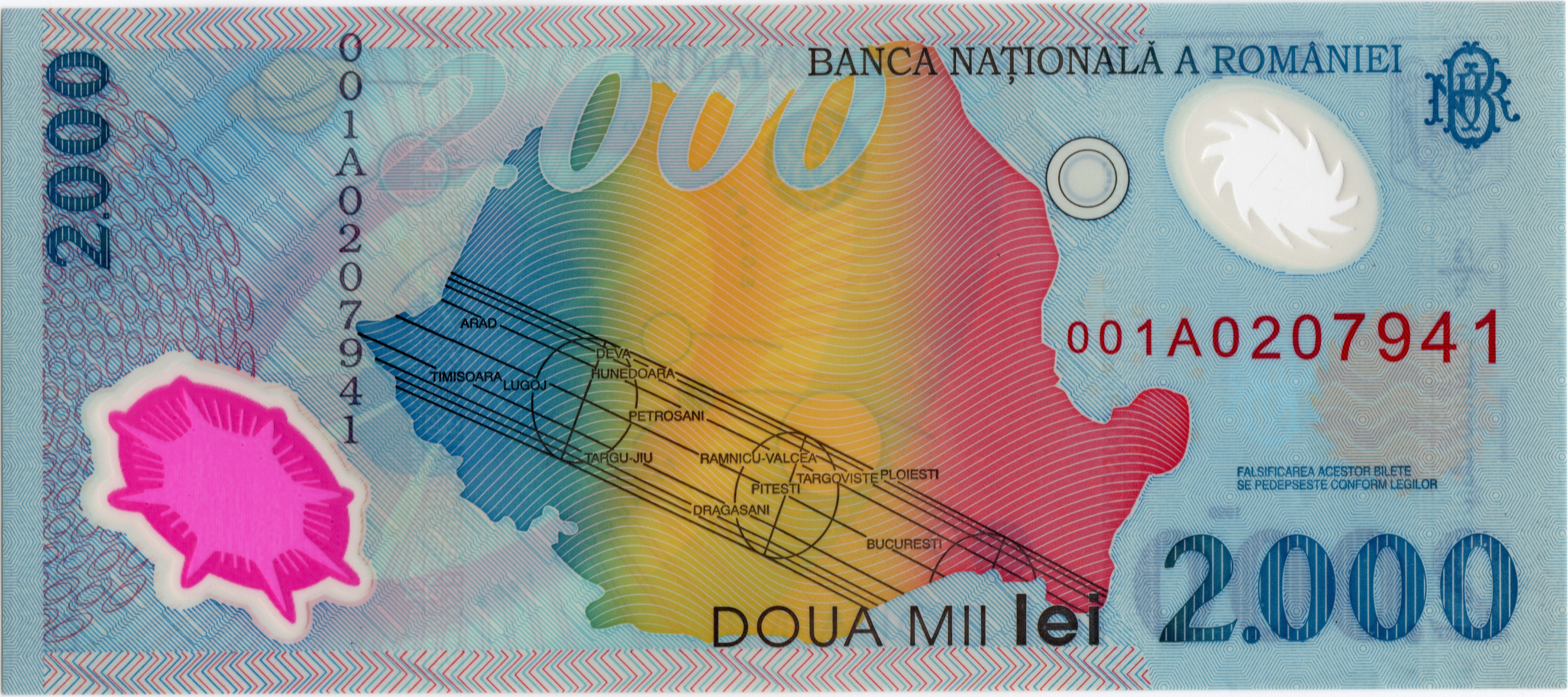 Reverse of a 1999-series Romanian 2000 lei banknote